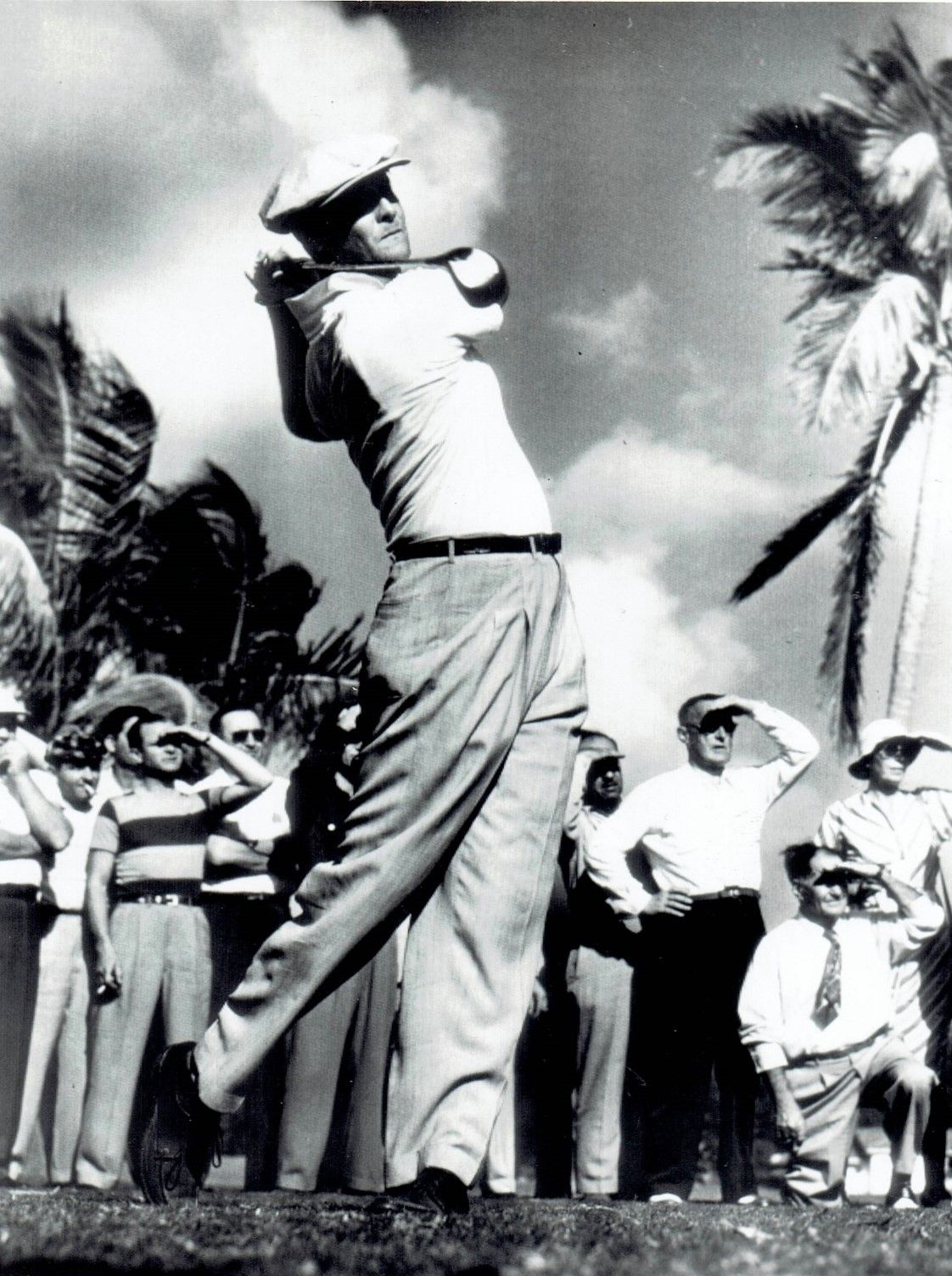 1949 Wire Photo golfer Fred Haas Jr. in Miami Open at Springs Golf Country Club